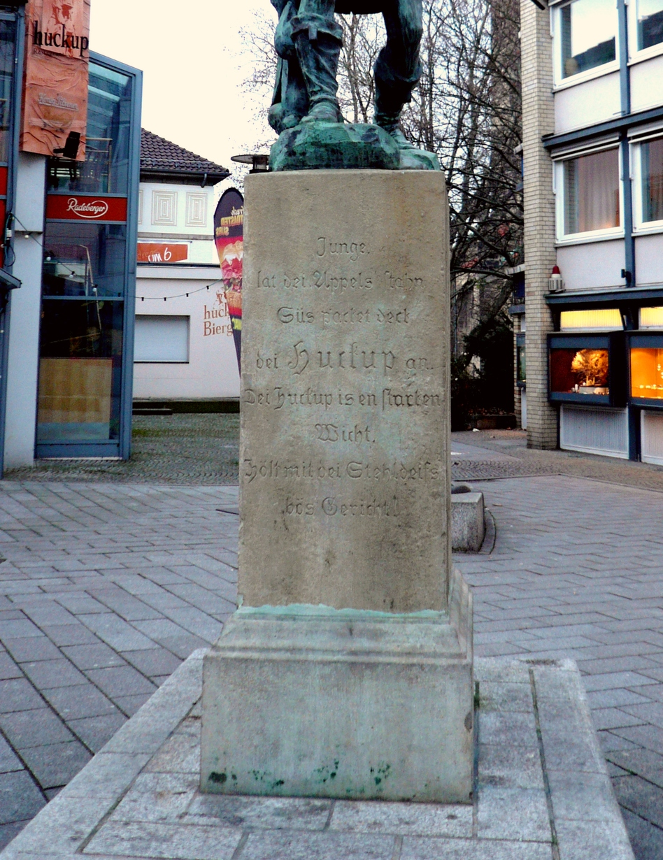 Hildesheim, Hoher Weg, pedestal of the „Huckup“ statue (lit. „Jump-on [the back]“), local legend. — Inscription (in Eastphalian): Junge lat dei Appels stahn, / süs packet deck dei Huckup an, / dei Huckup is en starken Wicht, / hölt mit dei Stehldeifs bös Gericht. („Let go the appels, boy / or the ‚Jump-on‘ will get you / the ‚Jump-on‘ is a strong kobold / (who) brutally punishes the thiefs.“)